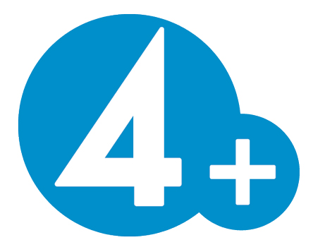 The logo of the swedish tv-channel TV4 Plus